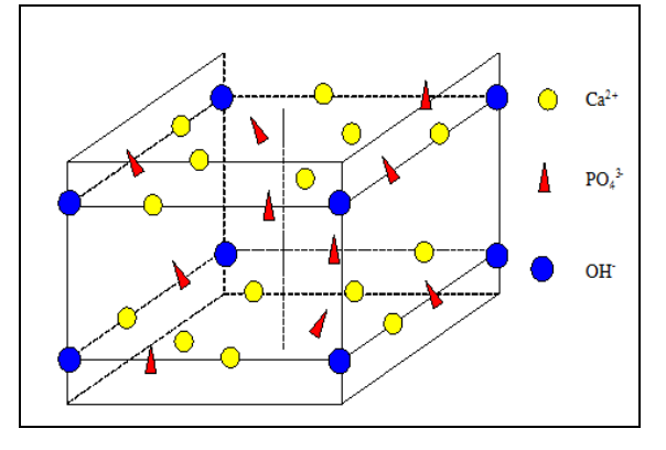 cellular network structure of hydroxyapatite